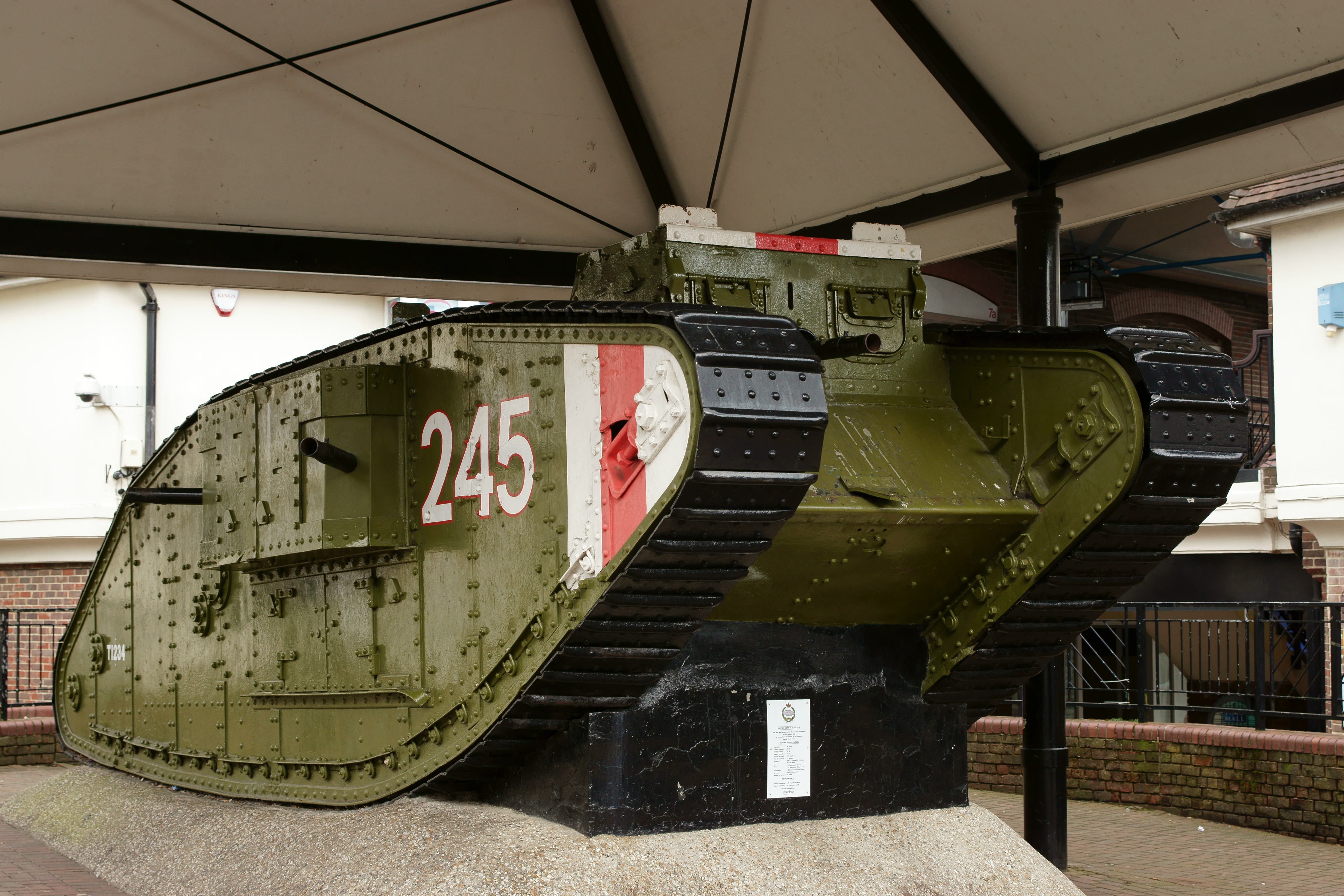 1917 British Mark IV tank (female) on display in Ashford, Kent, England.